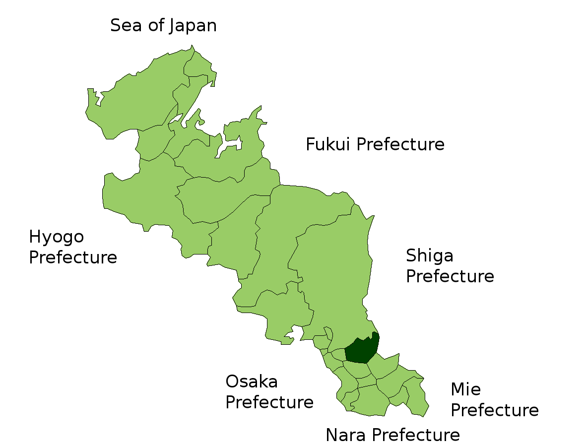 Location Map of Uji-in Kyoto-fu, Japan